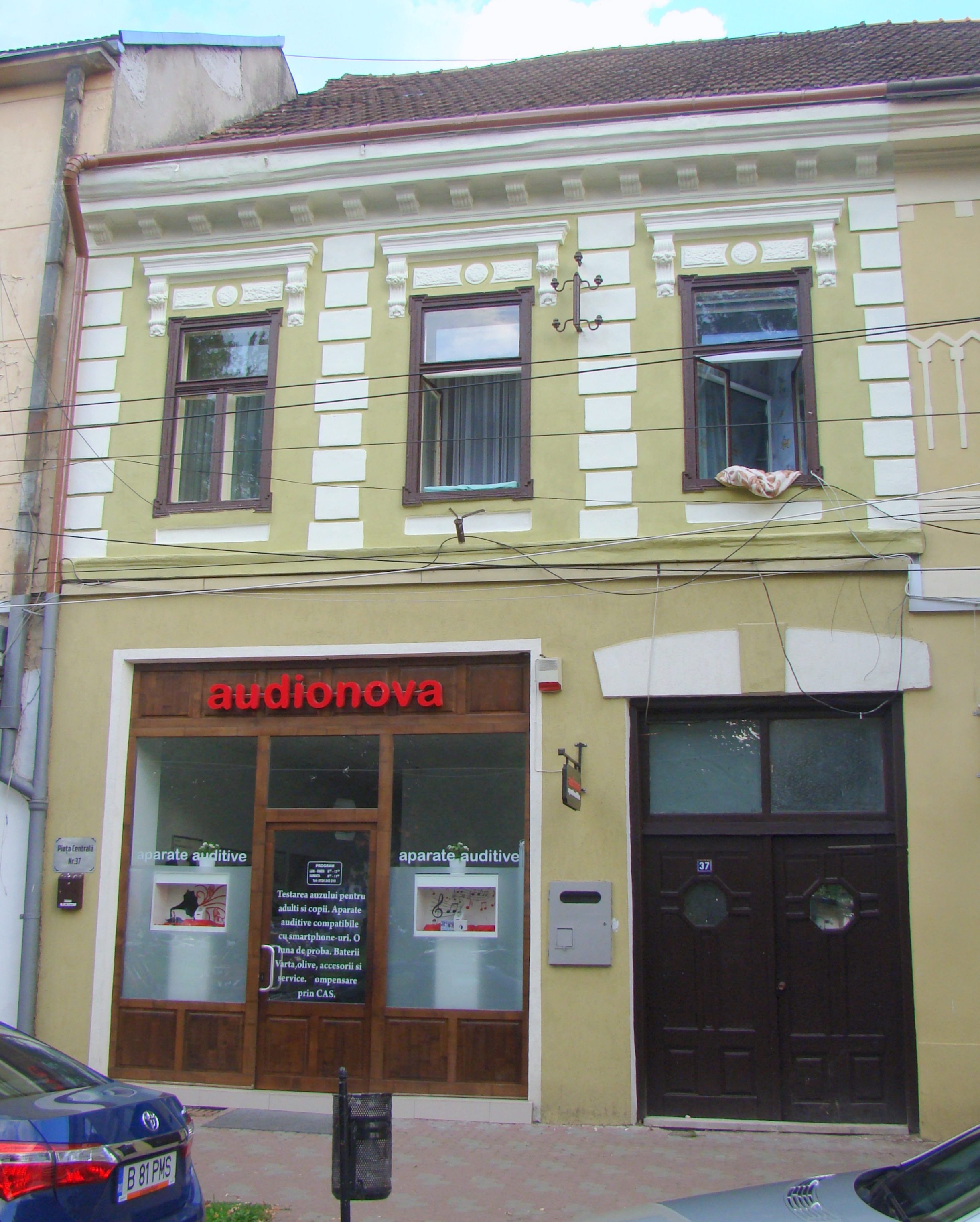 House, historic monument, in Bistrița, Piața Centrală 37